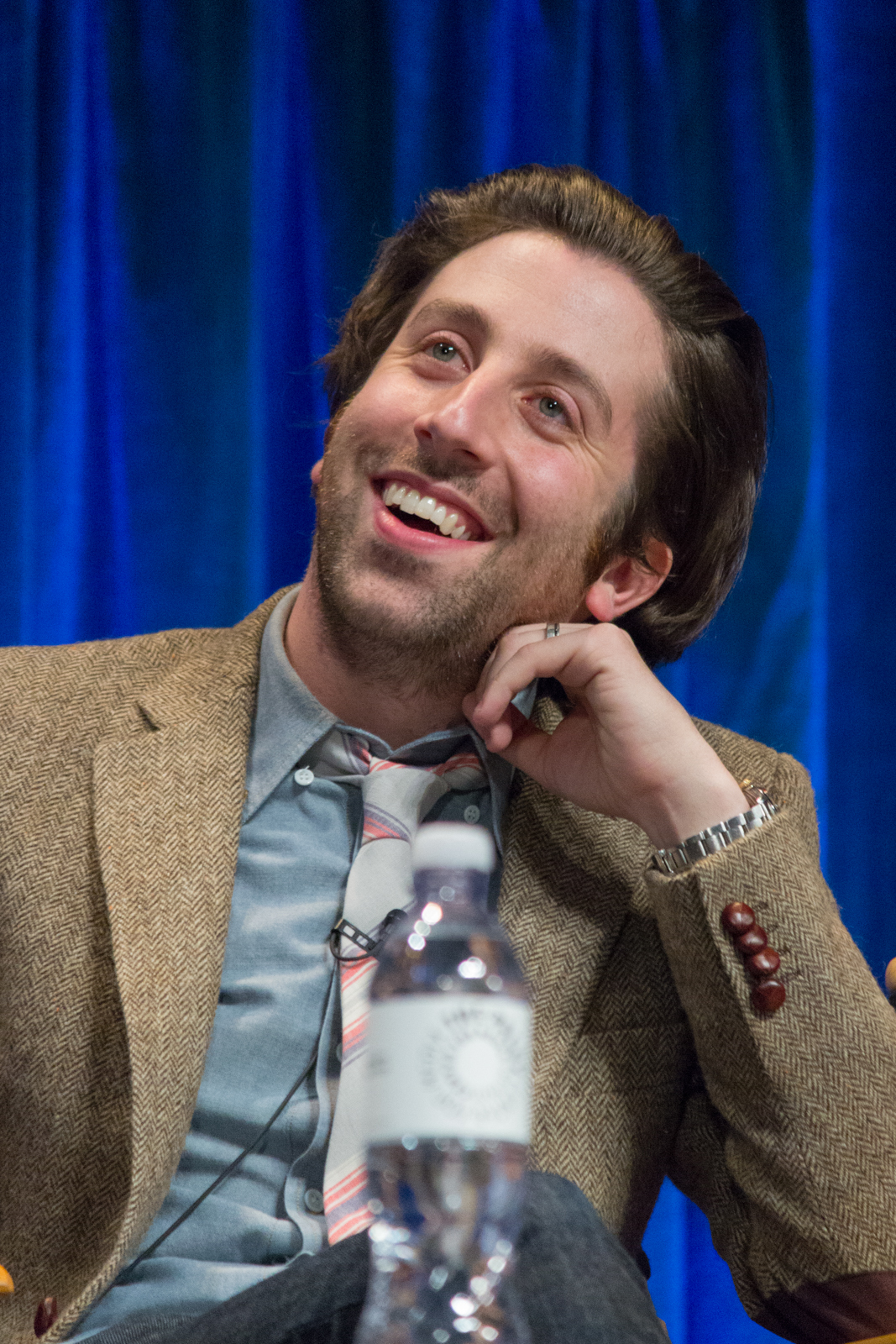 Simon Helberg at PaleyFest 2013 for the TV show "Big Bang Theory"